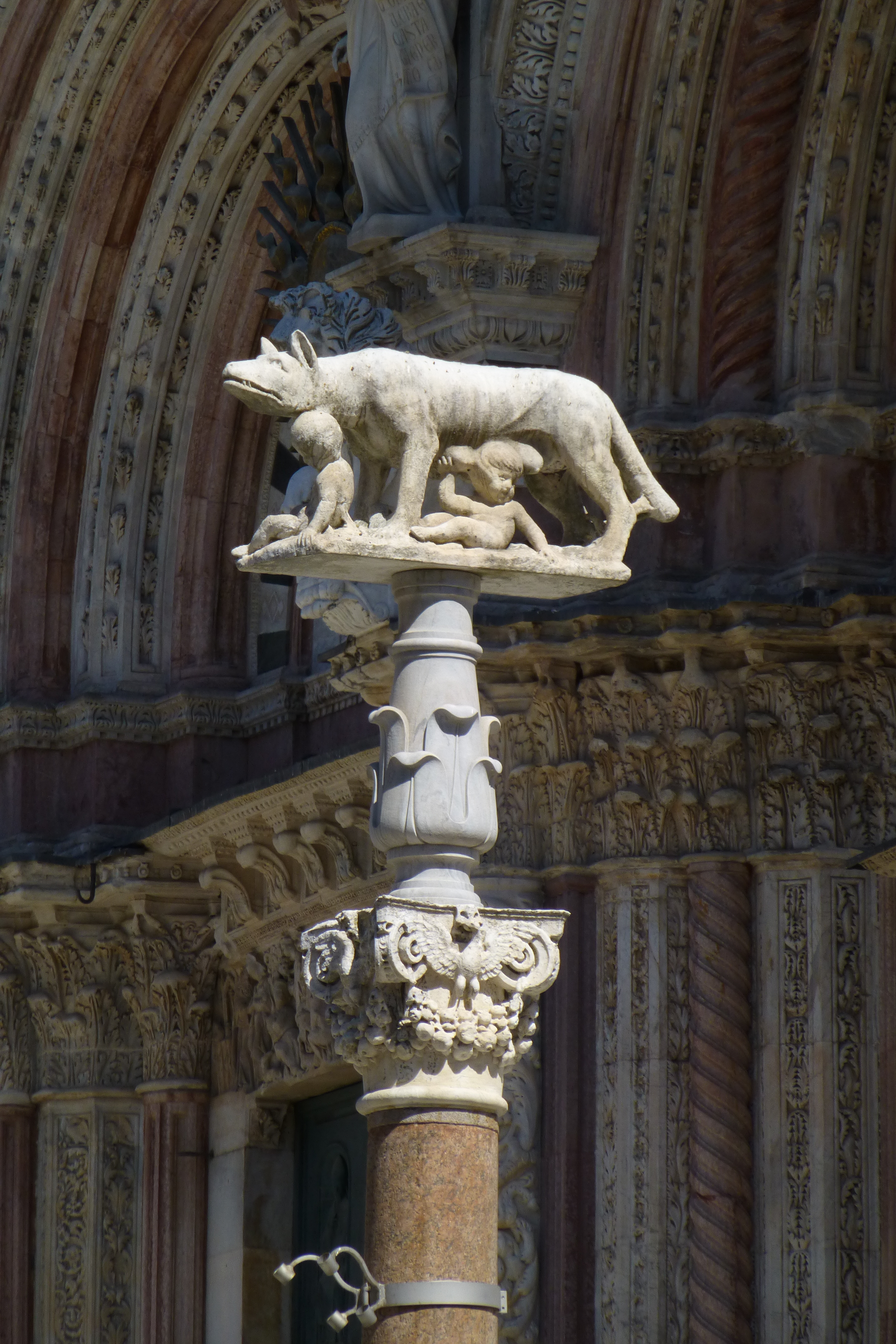 Siena Cathedral (Italian: Duomo di Siena) is a medieval church in Siena, Italy, dedicated from its earliest days as a Roman Catholic Marian church, and now dedicated to Santa Maria Assunta (Holy Mary, Our Lady of the Assumption).